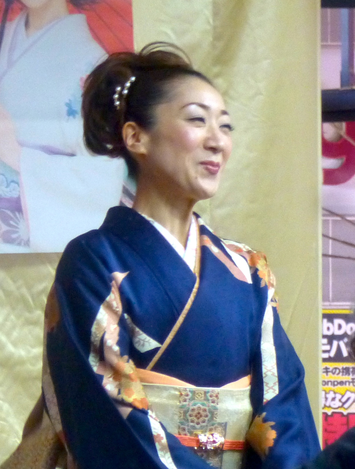 Yuki Nishio, enka singer.